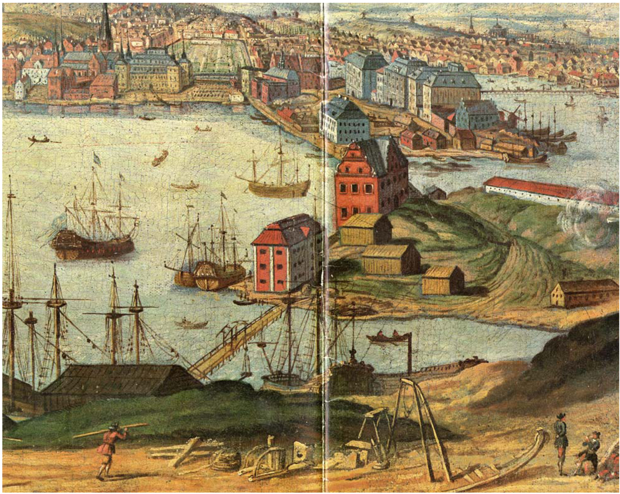 Skeppsholmen and Blasieholmen, Stockholm. View from east towards Blasieholmen with Kastellholmen in the foreground. Oil painting by unknown artist from around 1700.